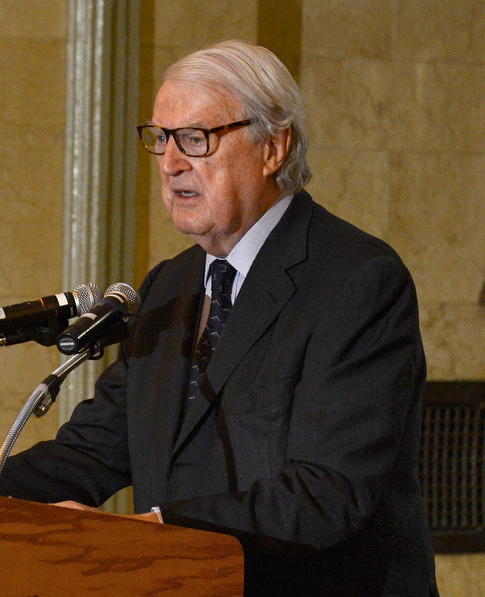 A ceremony was held at Grand Central Terminal on Mon., June 30, 2014 to dedicate the Jacqueline Kennedy Onassis Foyer, leading to Vanderbilt Hall from 42nd Street, in honor of the work done by the former first lady to preserve the iconic landmark. Former Ambassador William J. vanden Heuvel. Photo: Marc A. Hermann / MTA New York City Transit